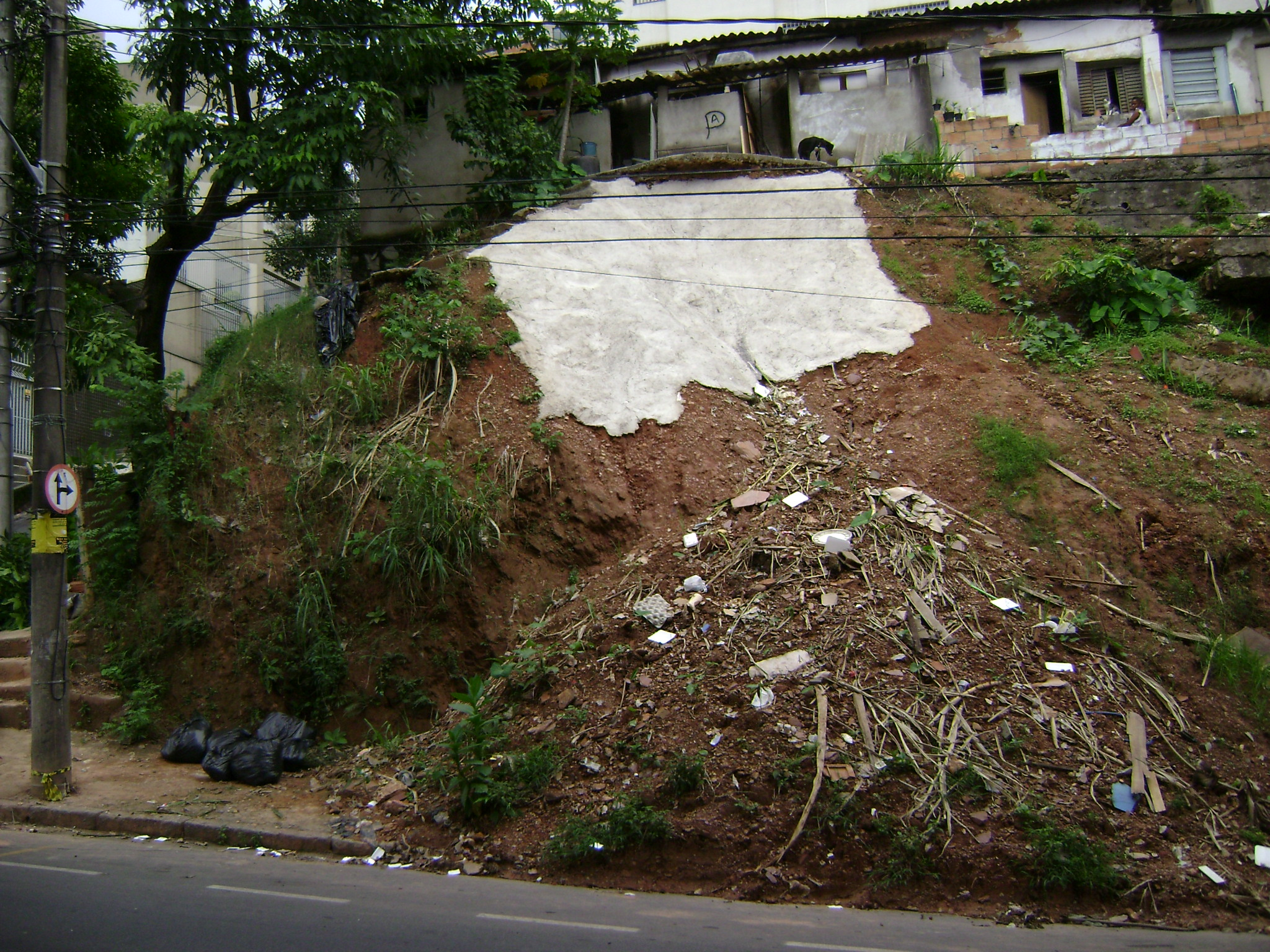 Área em que ocorreu deslizamento de terra na rua Viçosa, bairro São Pedro, Belo Horizonte.